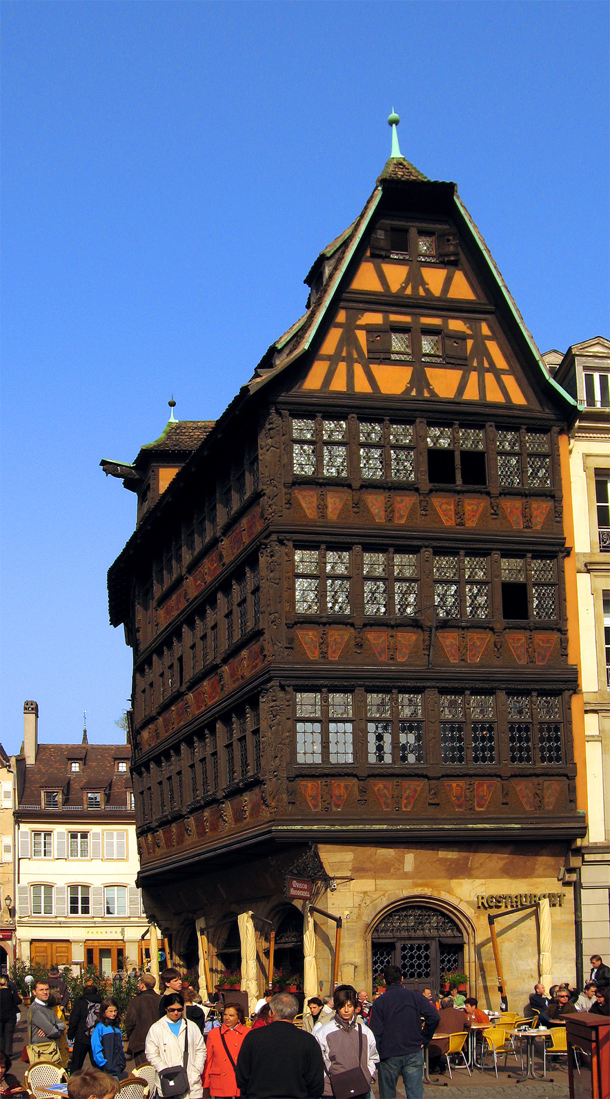 The House Kammerzell is a timber framing building in Strasbourg